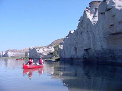 Upper Missouri River Breaks National Monument, Montana, United States